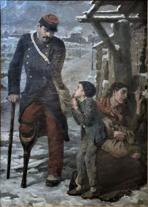 Léopold Speekaert, La Guerre (painting from the series Les plaies sociales)